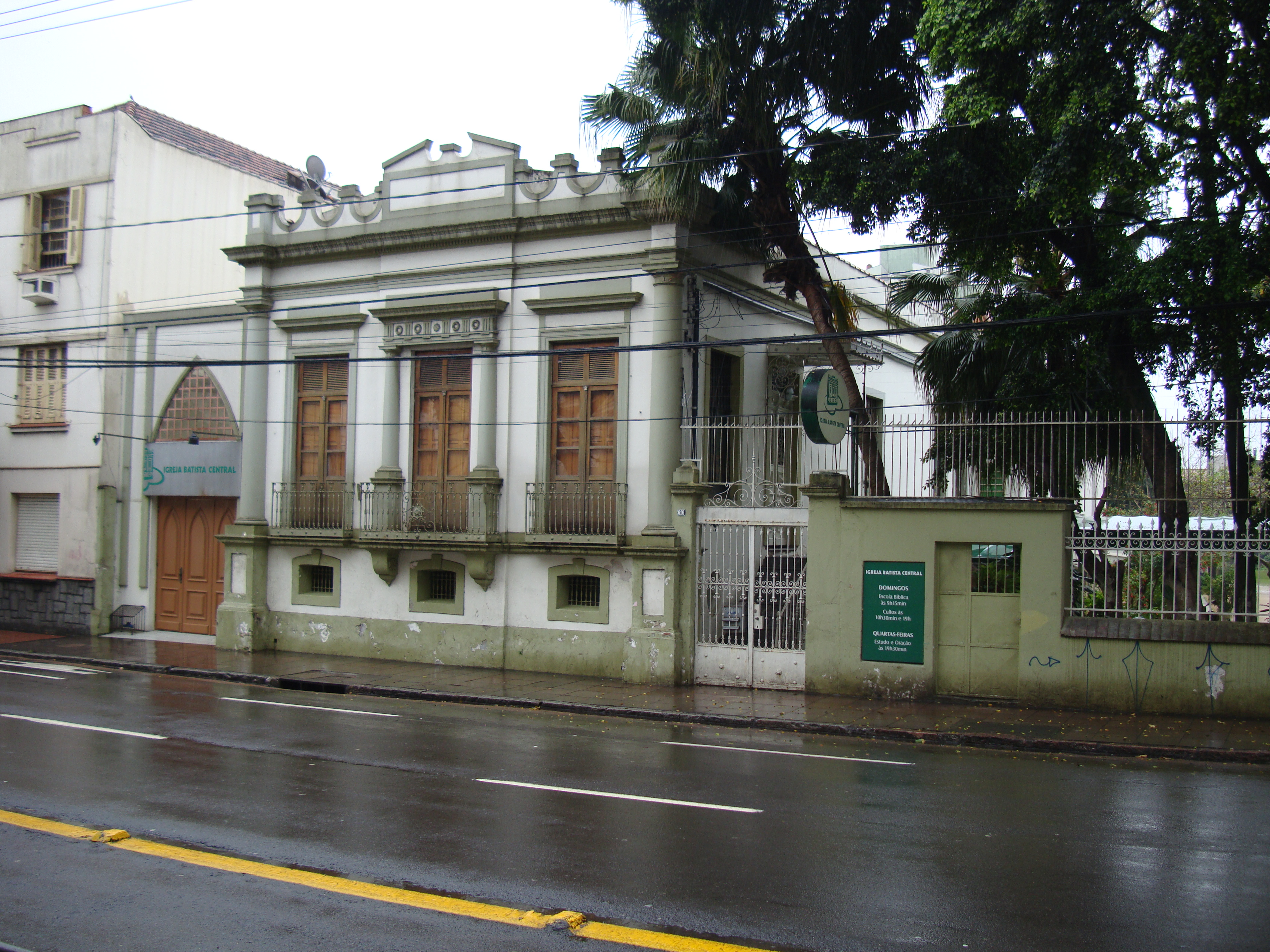 Central Baptist Church in Porto Alegre, Rio Grande do Sul, Brazil